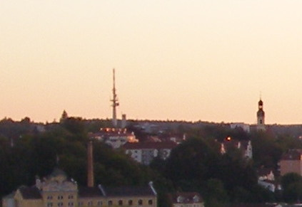 Fernsehturm Passau-Haidenhof with church St. Anton and Löwenbrauerei in Passau in 2007